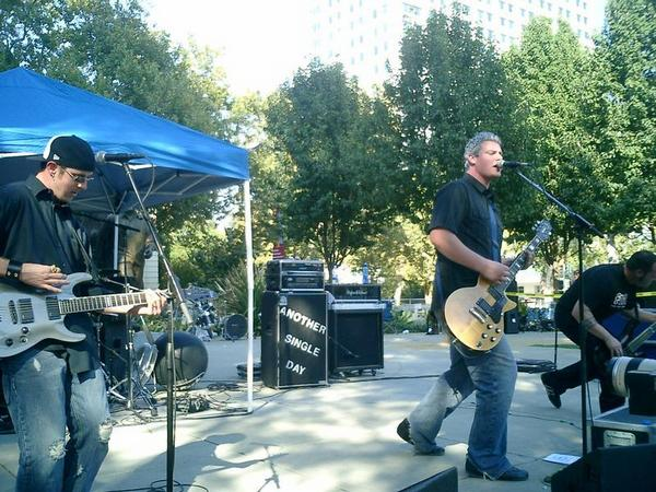 Asd park full